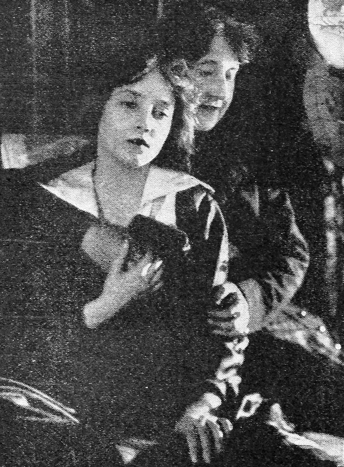 Bessie Love and Flora Finch in The Great Adventure (1918)